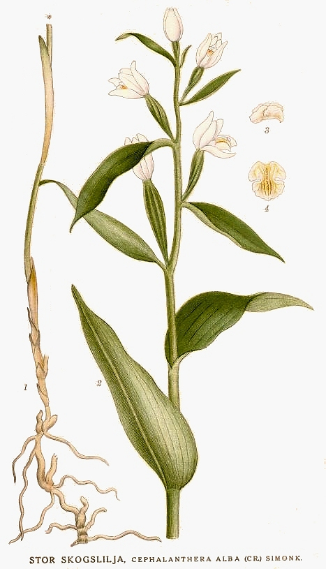 Cephalanthera damasonium (Mill.) Druce, syn. Cephalanthera alba (Crantz) Simonk. Original Description Stor skogslilja, Cephalanthera alba (Cr.) Simonk.